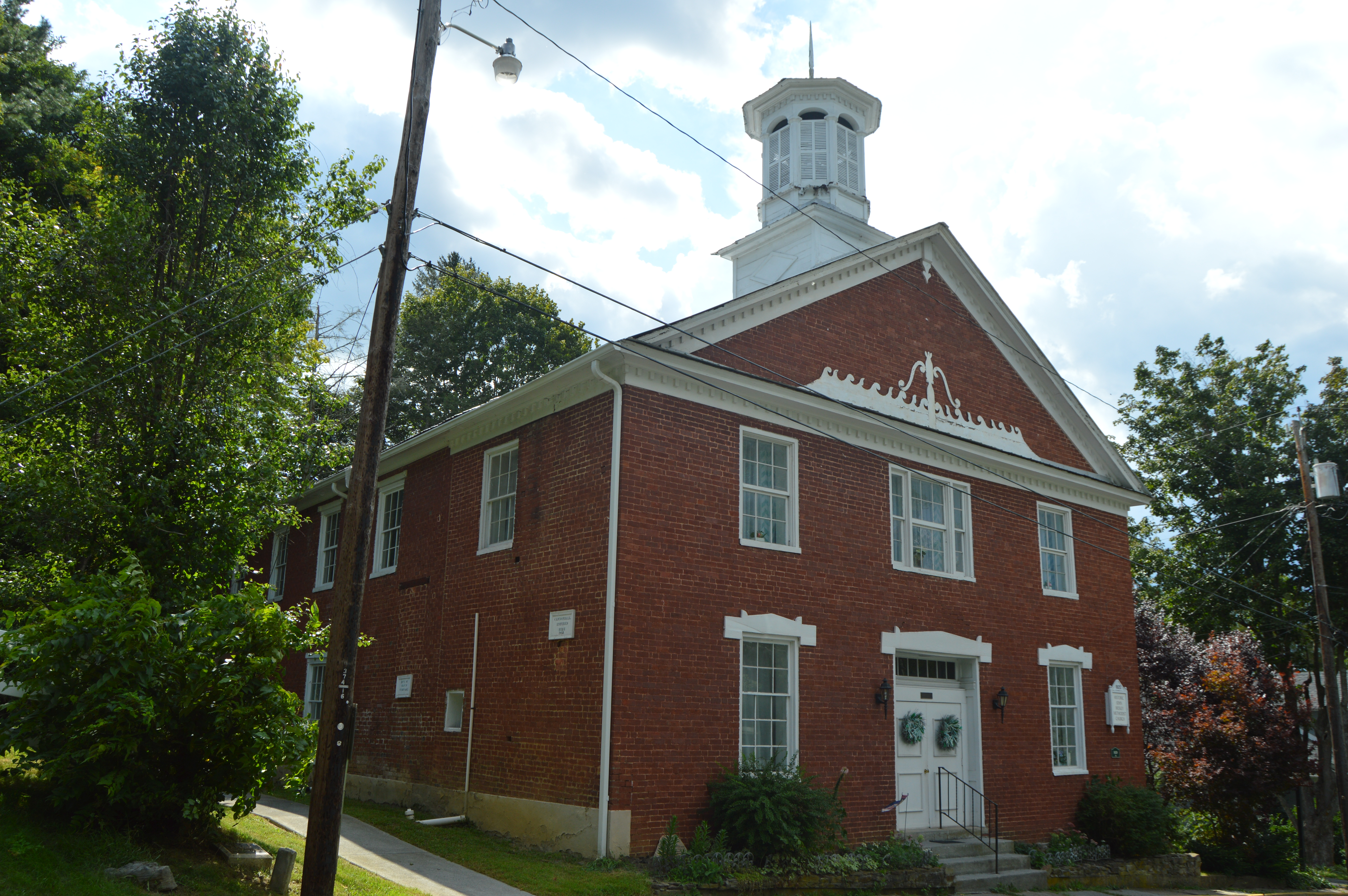 Front and eastern side of the John Wesley Methodist Church, located on the southern side of Foster Street east of the Lafayette Street intersection in Lewisburg, West Virginia, United States. Built in 1820, it is listed on the National Register of Historic Places.